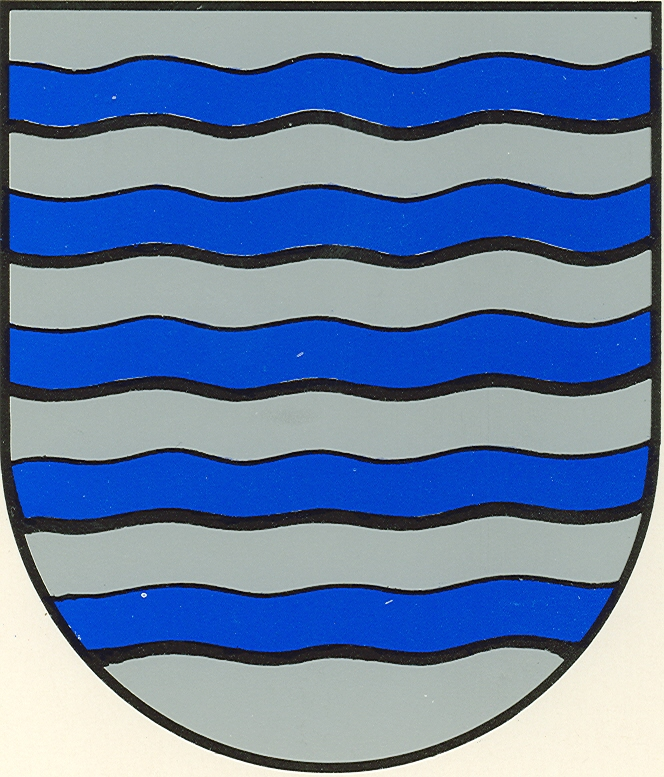 Coat of Arms of the Tavora family